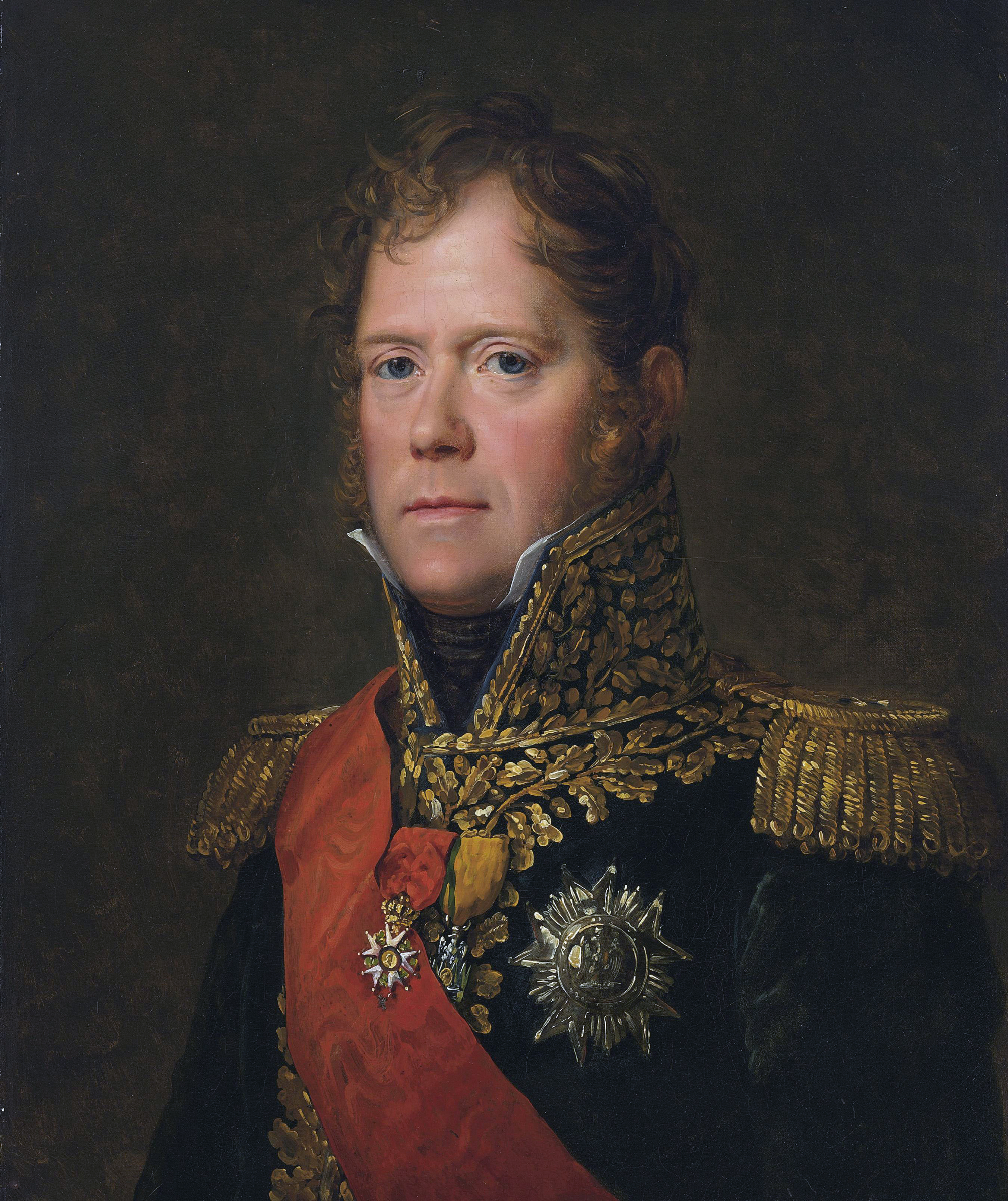 Marshal Michel Ney, duc d'Elchingen, prince de la Moskova